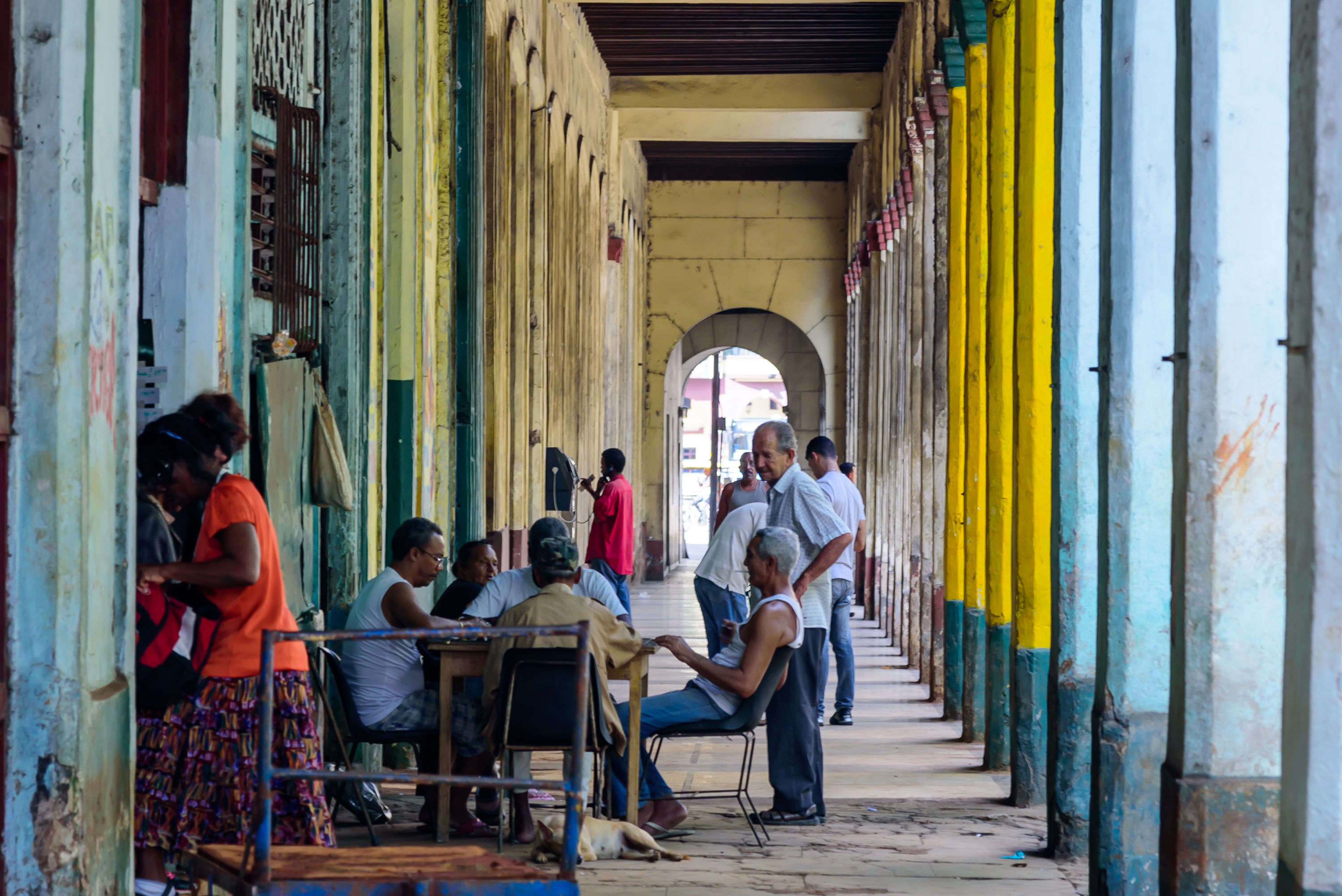 In the shade, locals love to pass time playing domino's, zip on a Club Habana and discuss world politics.